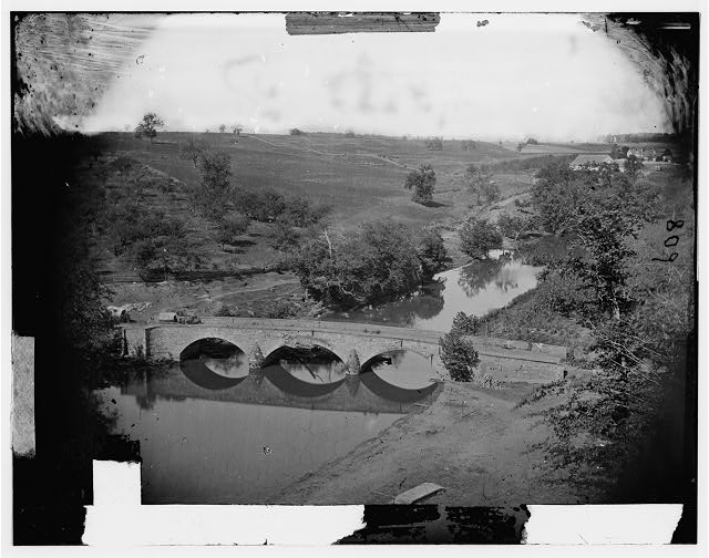 Burnside's Bridge after the Battle